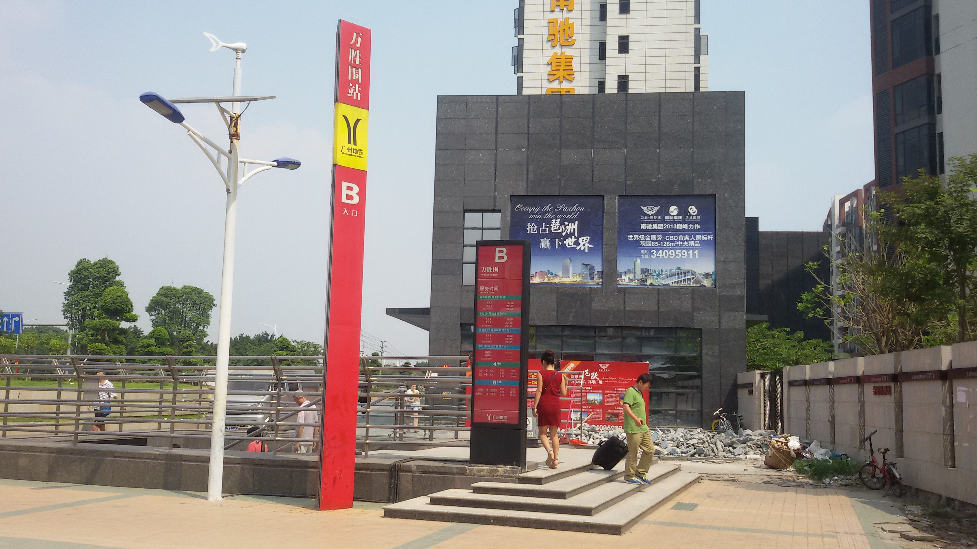 Exit B for Wanshengwei Station in Guangzhou Metro. 粵語: 廣州地鐵，萬勝圍站嘅B出入口。